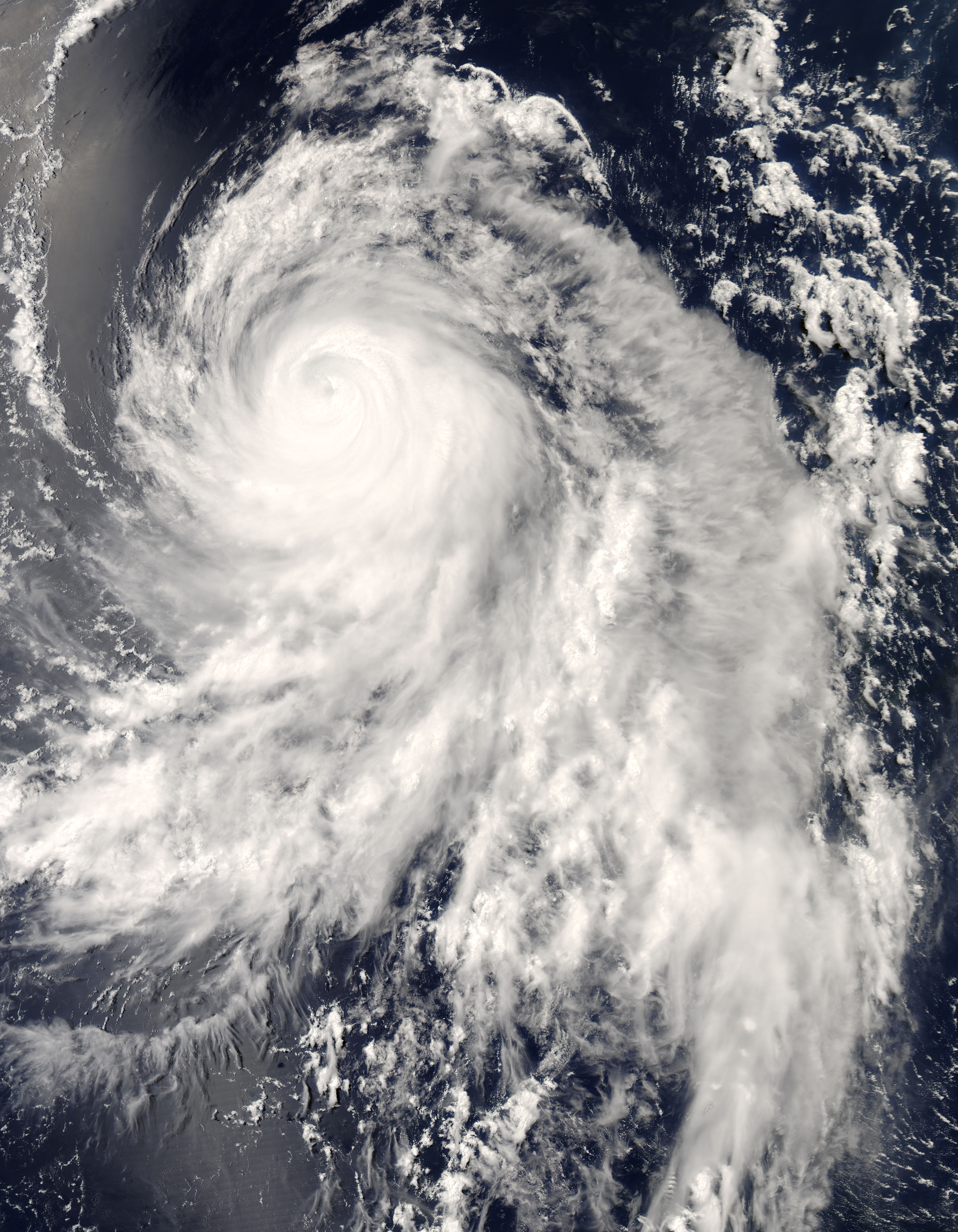 Typhoon Nakri (2008) off Japan on 2008-05-31 at 0440Z